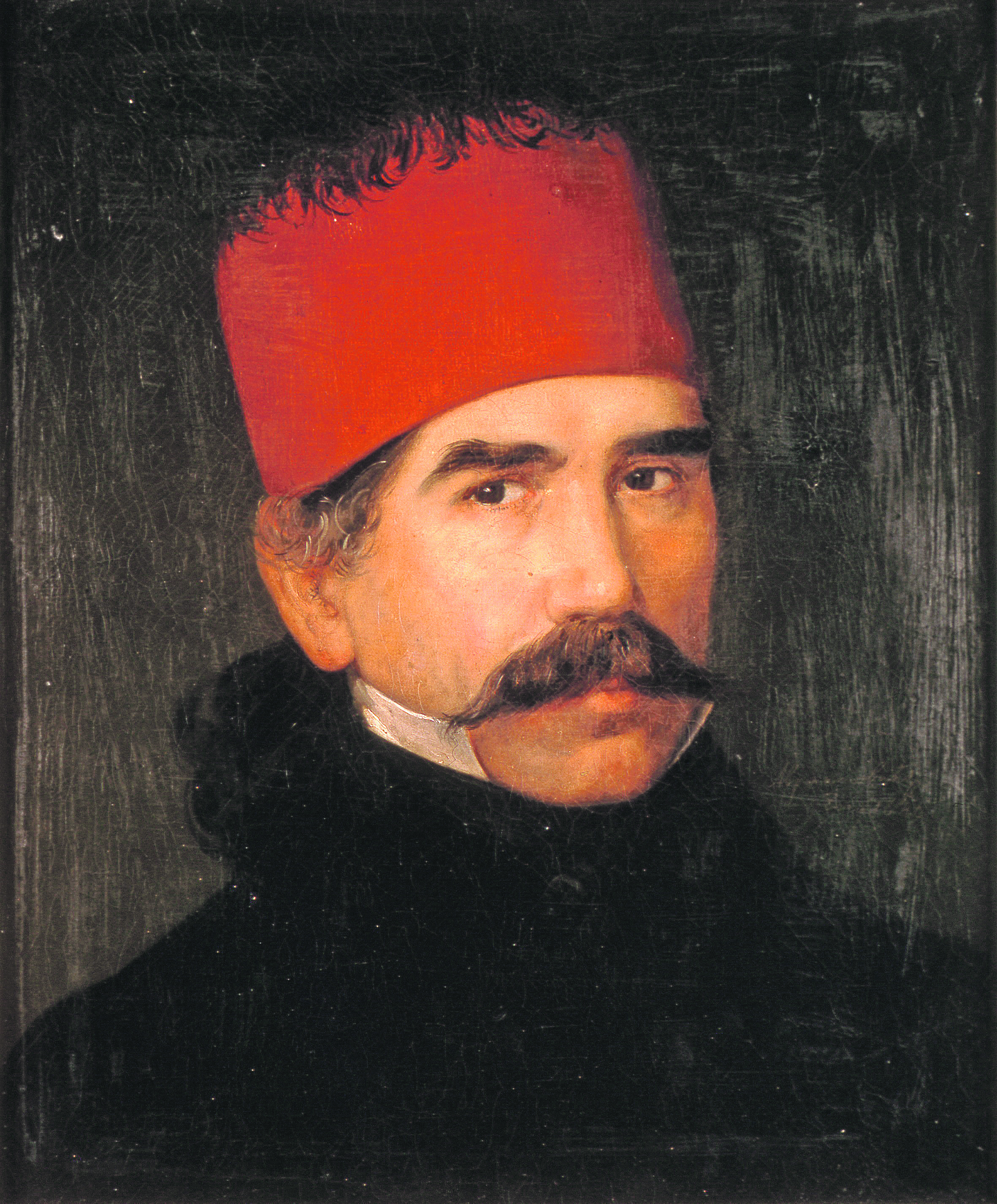 Oil on canvas painting "Vuk Karadžić" from 1840 by Dimitrije Avramović (1815 - 1855), see this